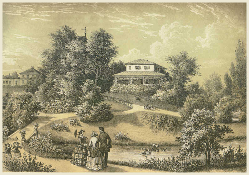 The Neuenhof castle near Eisenach.